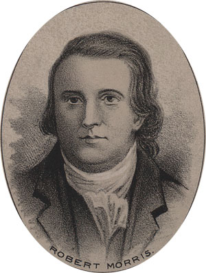 Robert Morris was a self-made millionaire who financed the American Revolution, and was a signatory to the to the Declaration of Independence, the Articles of Confederation, and the United States Constitution.